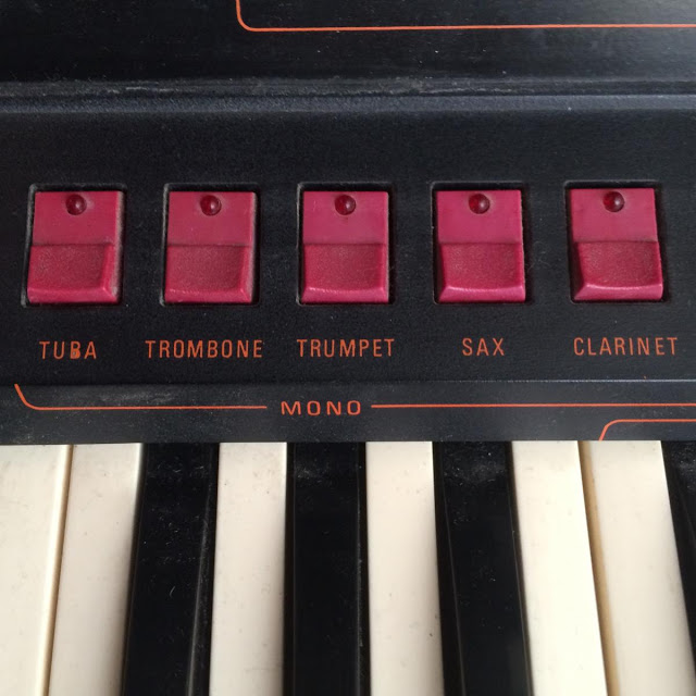 Closeup on the Soundmaker's Presets